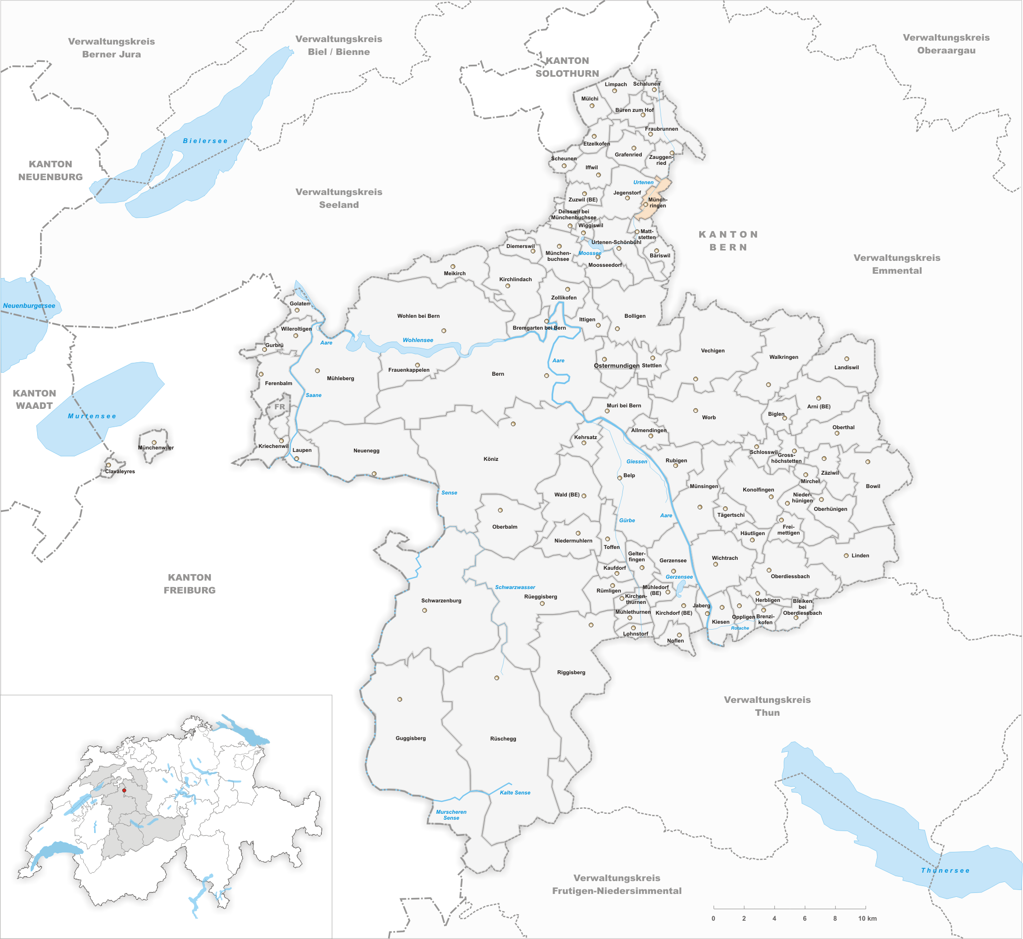 Municipality Münchringen